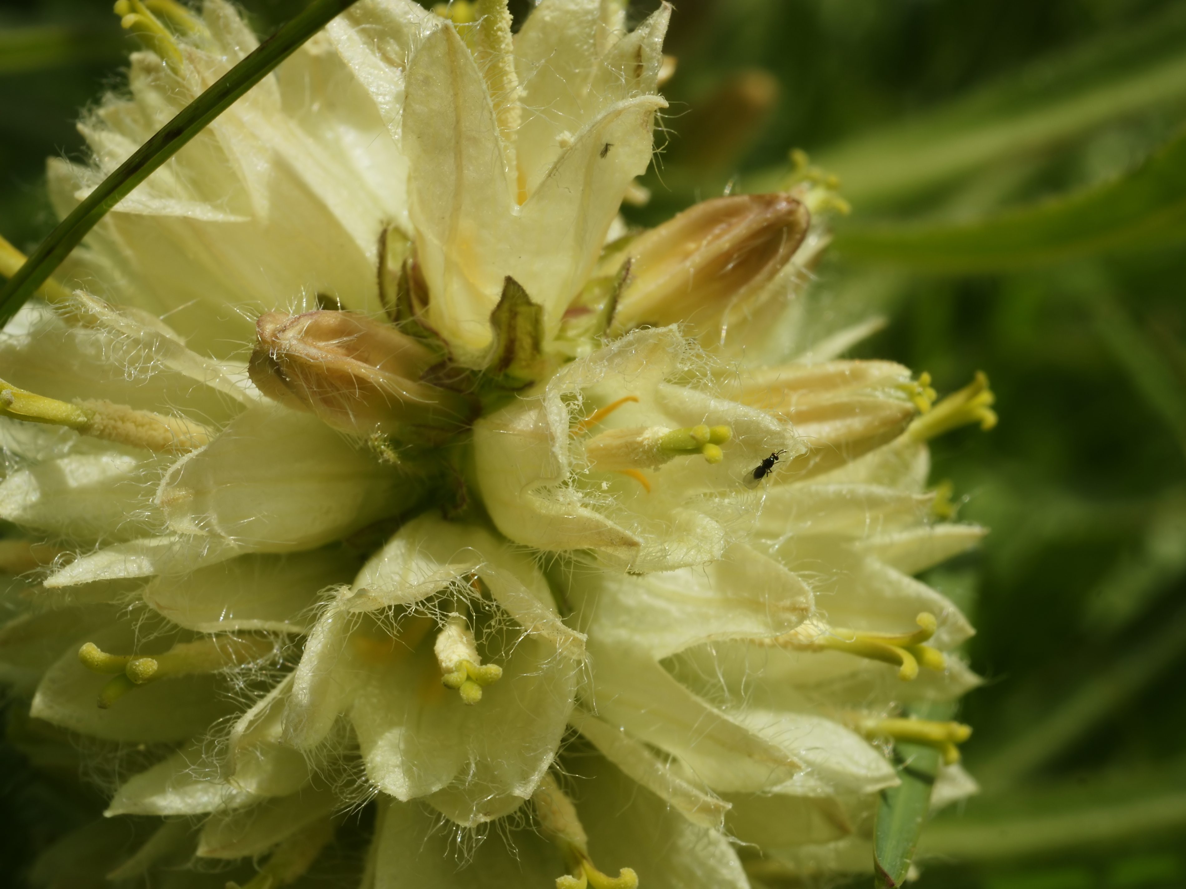 Bellflower at the Swiss/Italian border at the Grand Saint Bernard Pass.